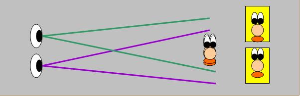 The eye perceives objects at different angles, creating the illusion of depth of objects. File:Estereoscopia2.JPG